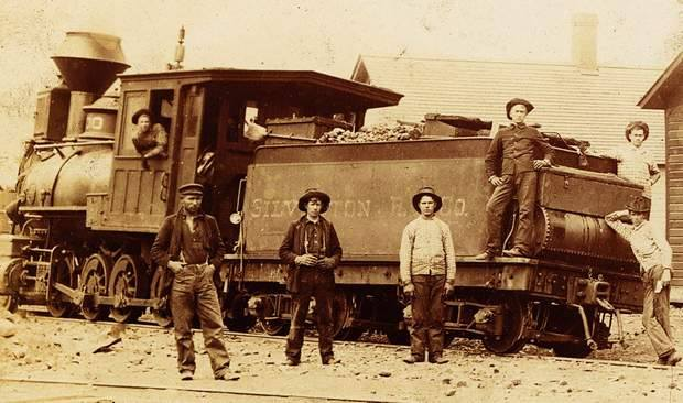 Silverton RR 2-8-0